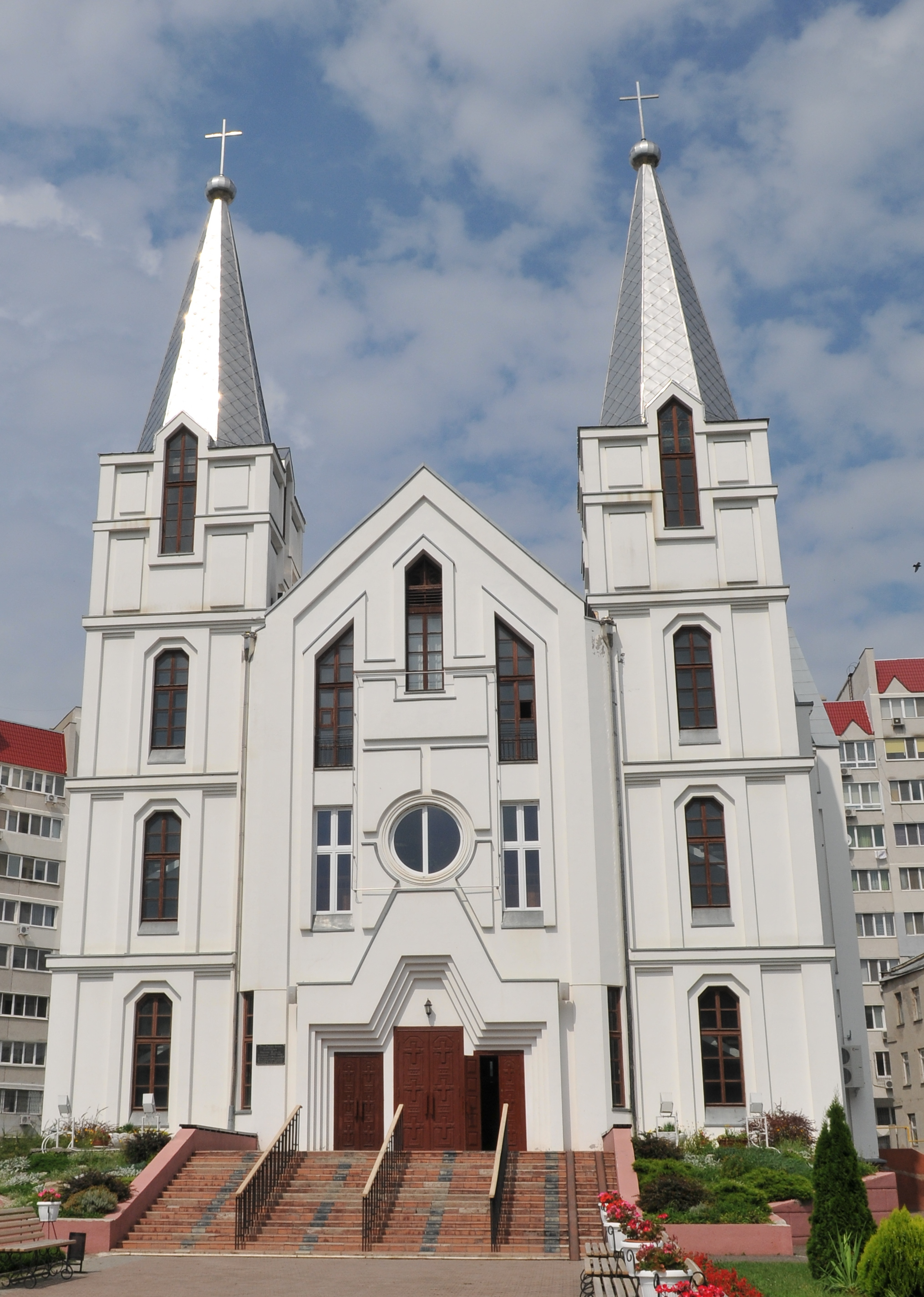 First Odesa Baptist Church Building